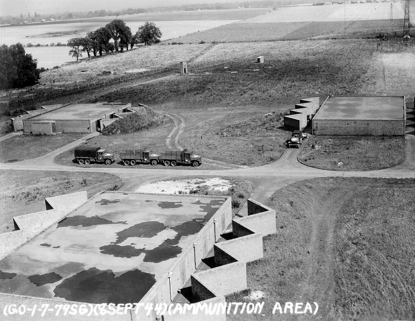 Ammunition area at Duxford air base where the 78th Fighter Group were based between April 1943 and October 1945. 8 September 1944.